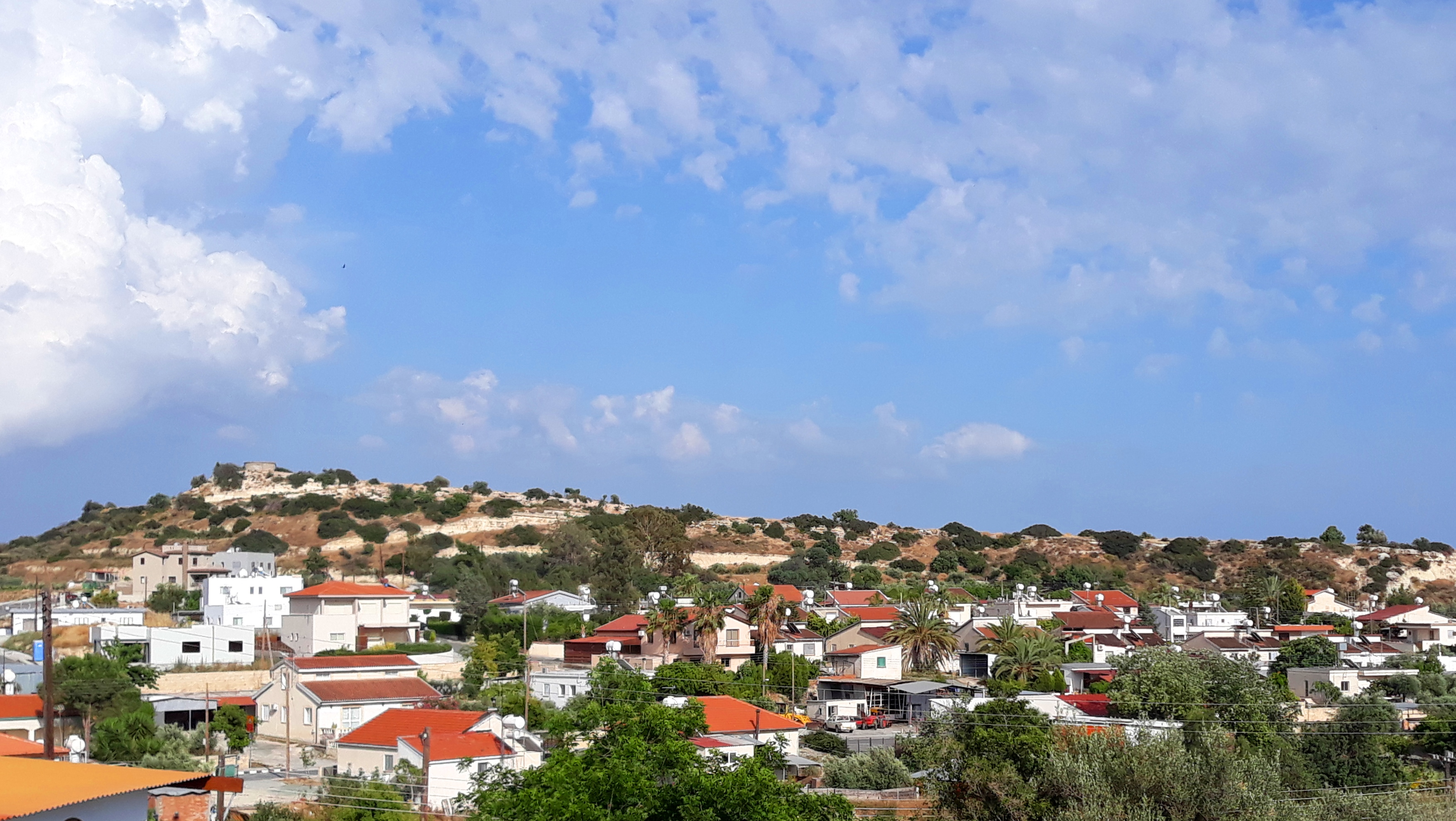 View of Avdimou.